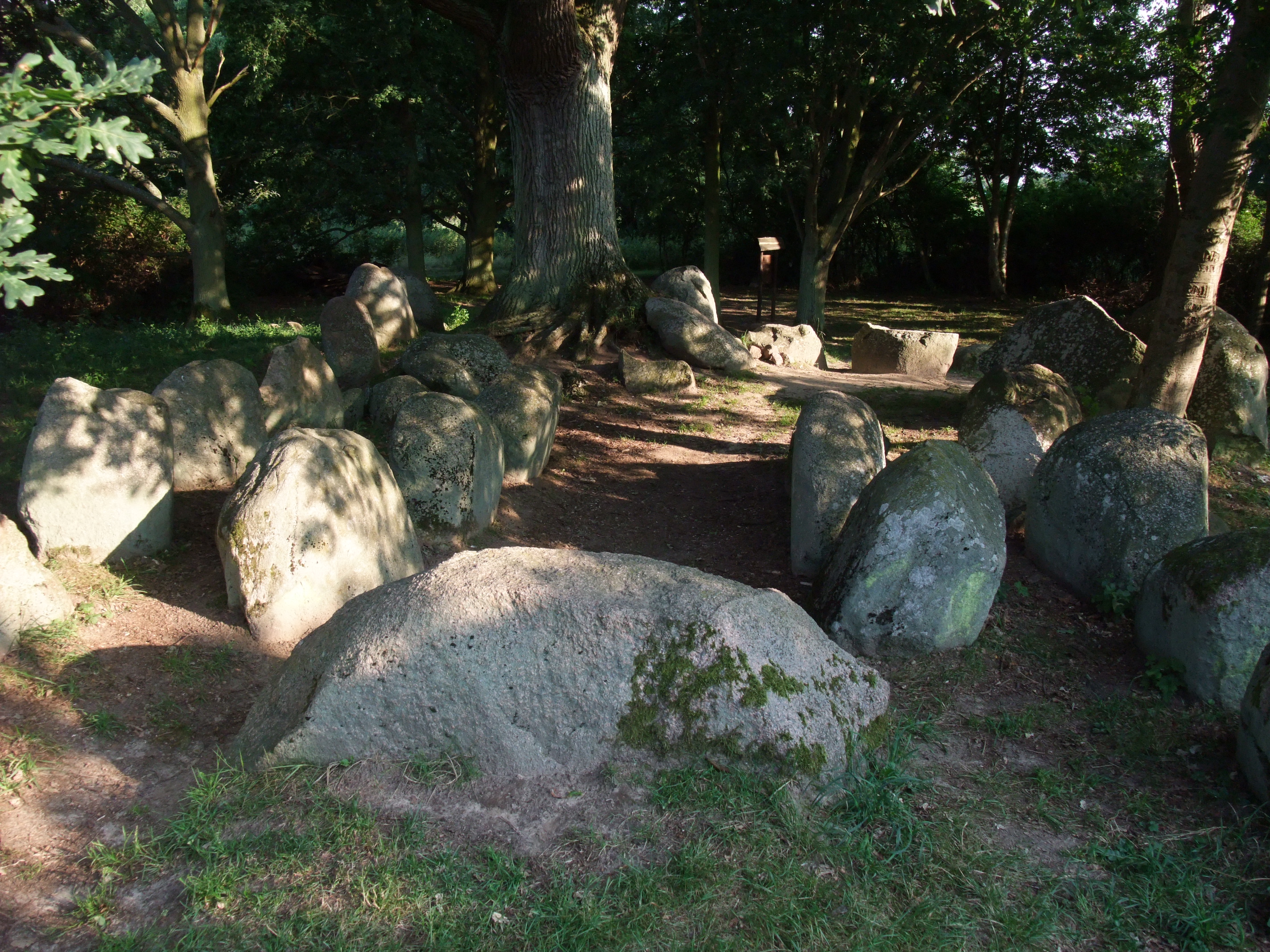 Dolmen in Lütow, Germany